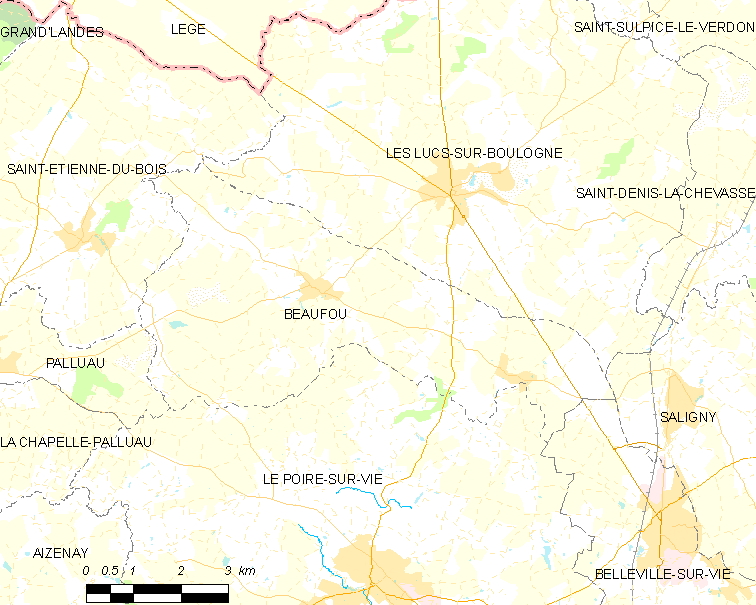 Map of French municipality Beaufou